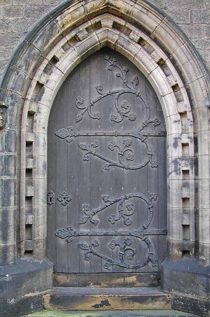 Doorway of St Saviour's church, Leeds, West Yorkshire